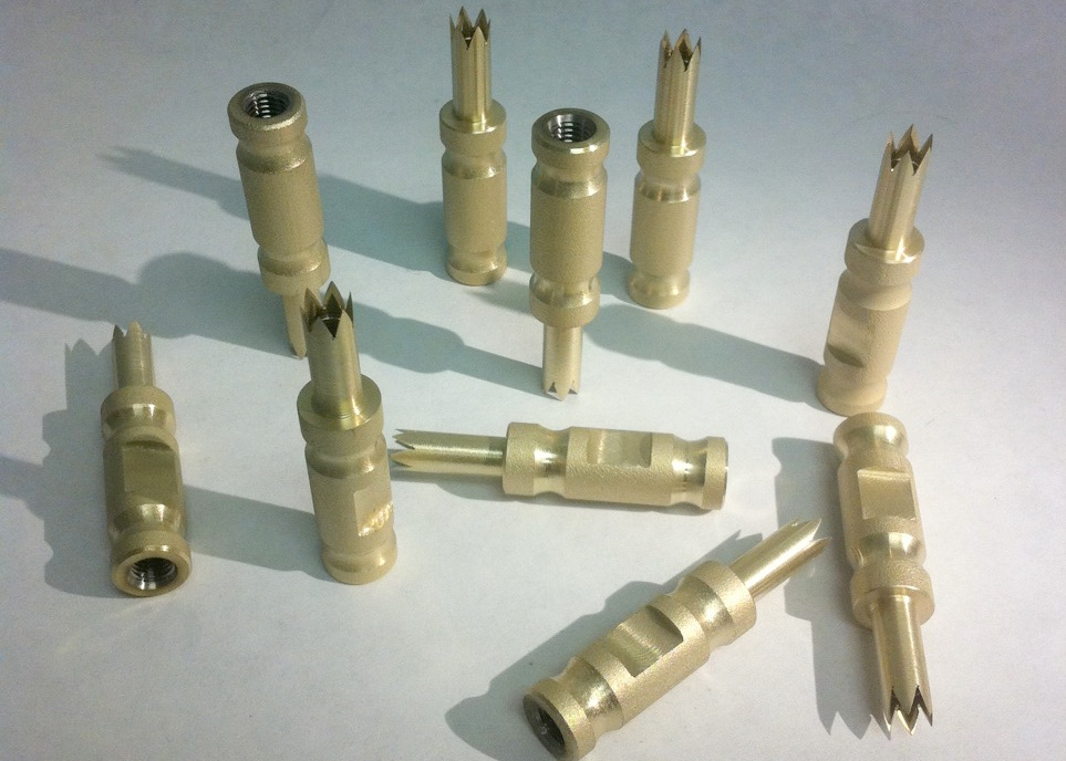 Zirconium nitride coated punches used to cut holes in plastic.